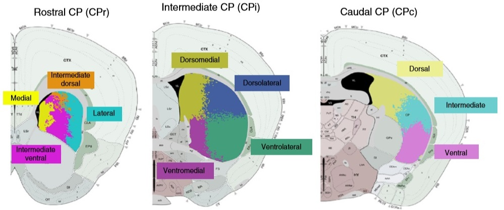 背側線条体